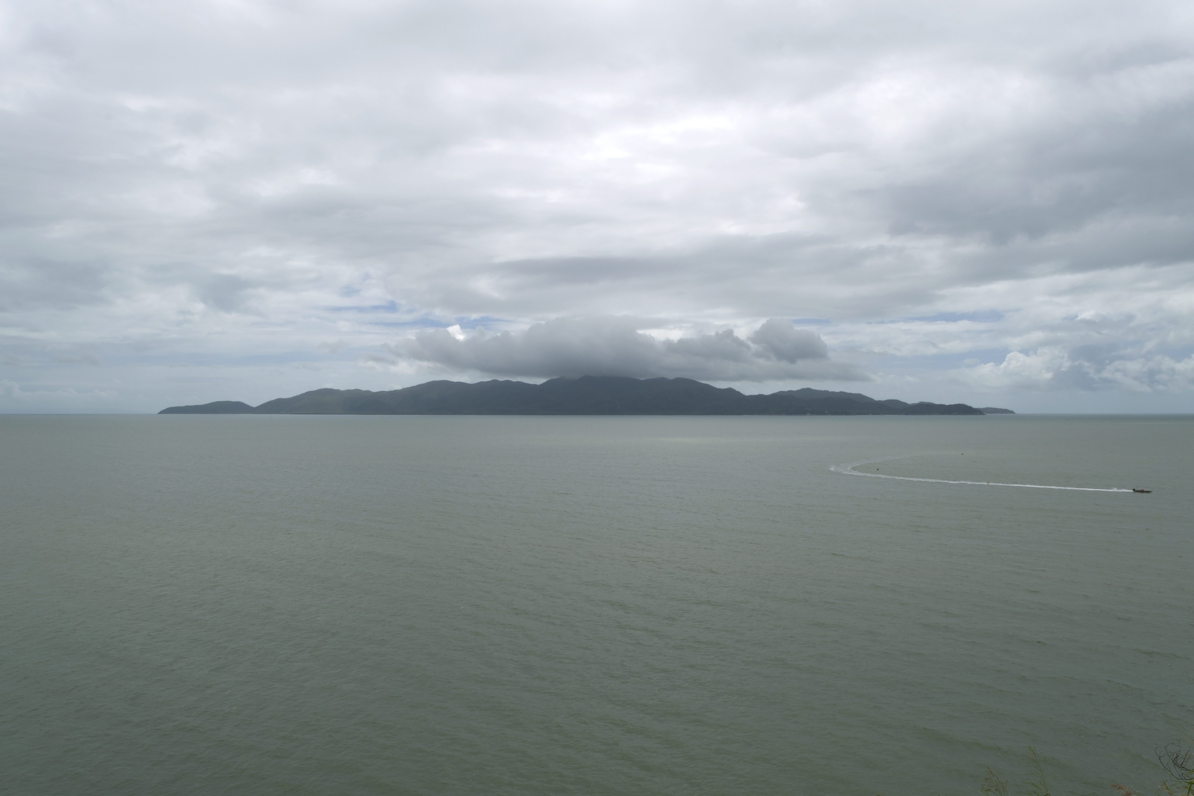 Looking towards the west from Kissing Point over the Coral Sea, with Magnetic Island on the horizon.